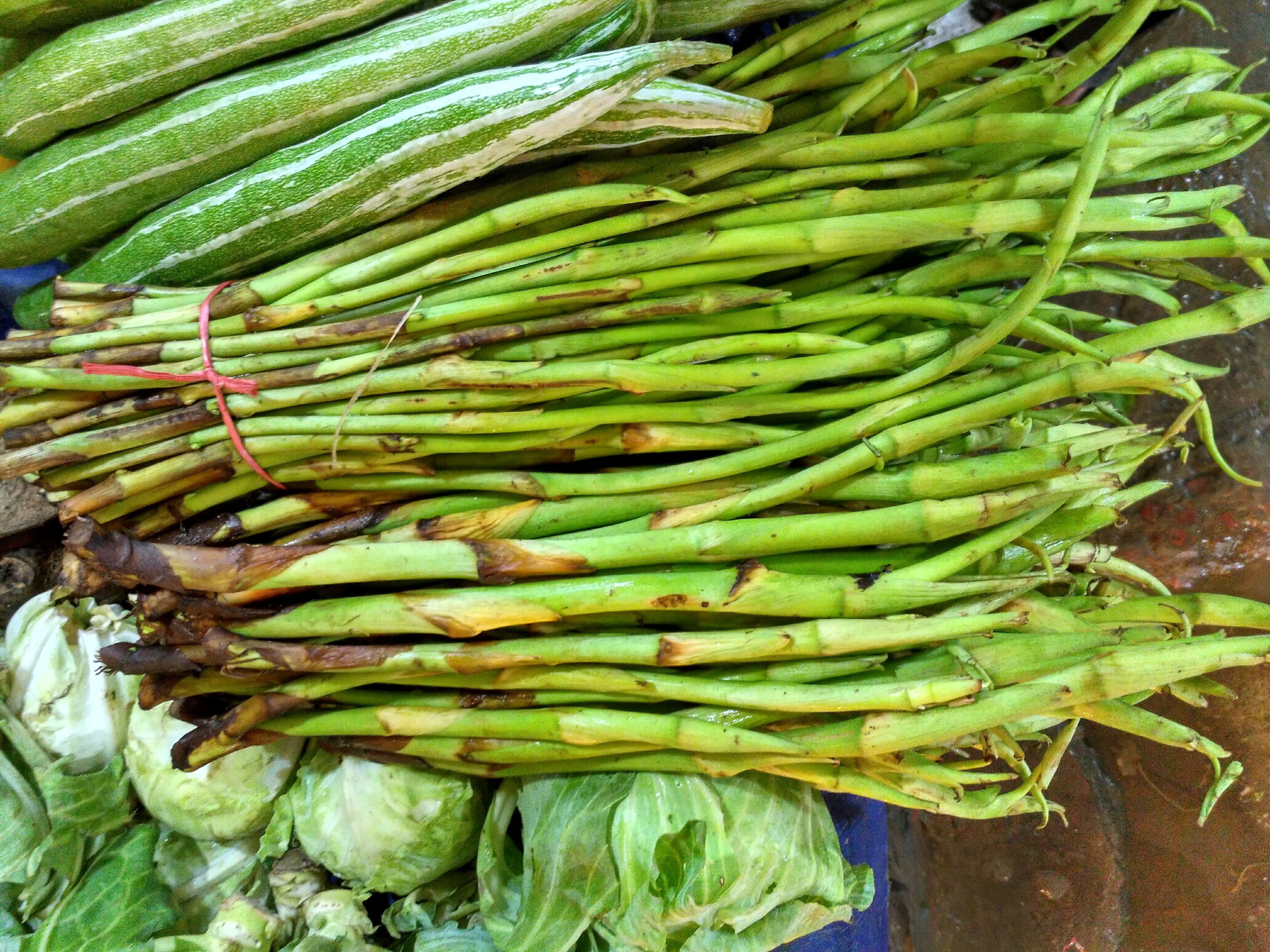 View of taro stolons at a grocery market in Dhaka for sale. Moghbazar Charulata Market Kancha Bazar, Dhaka, Bangladesh. (28.09.2018.)